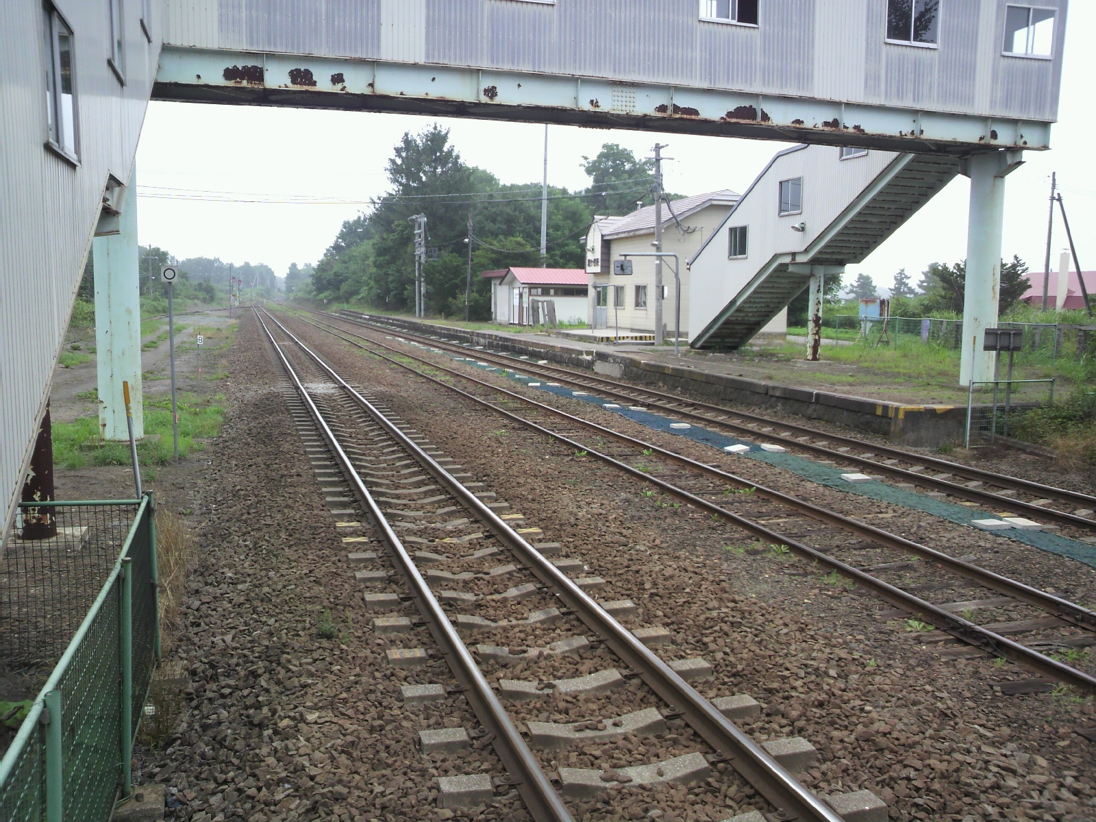 The platform of Komagatake Station.